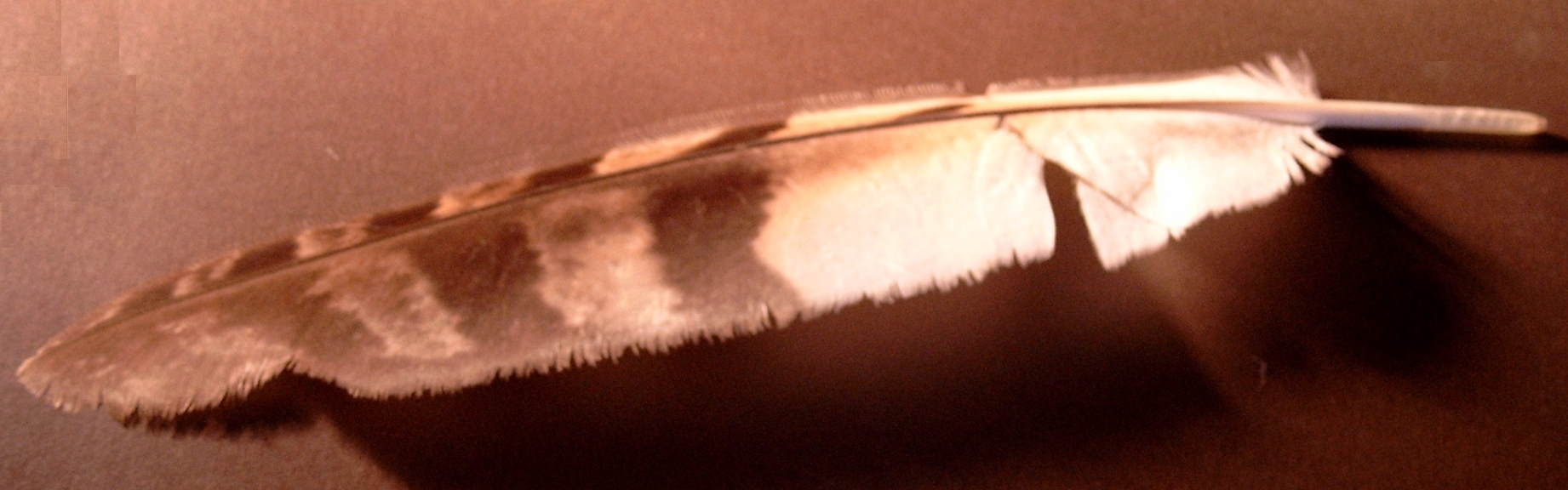 Feather of an owl